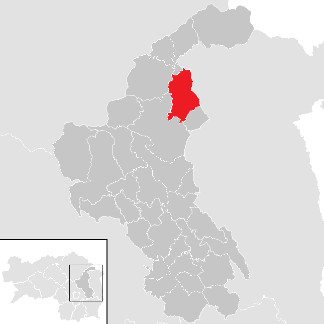 district Weiz